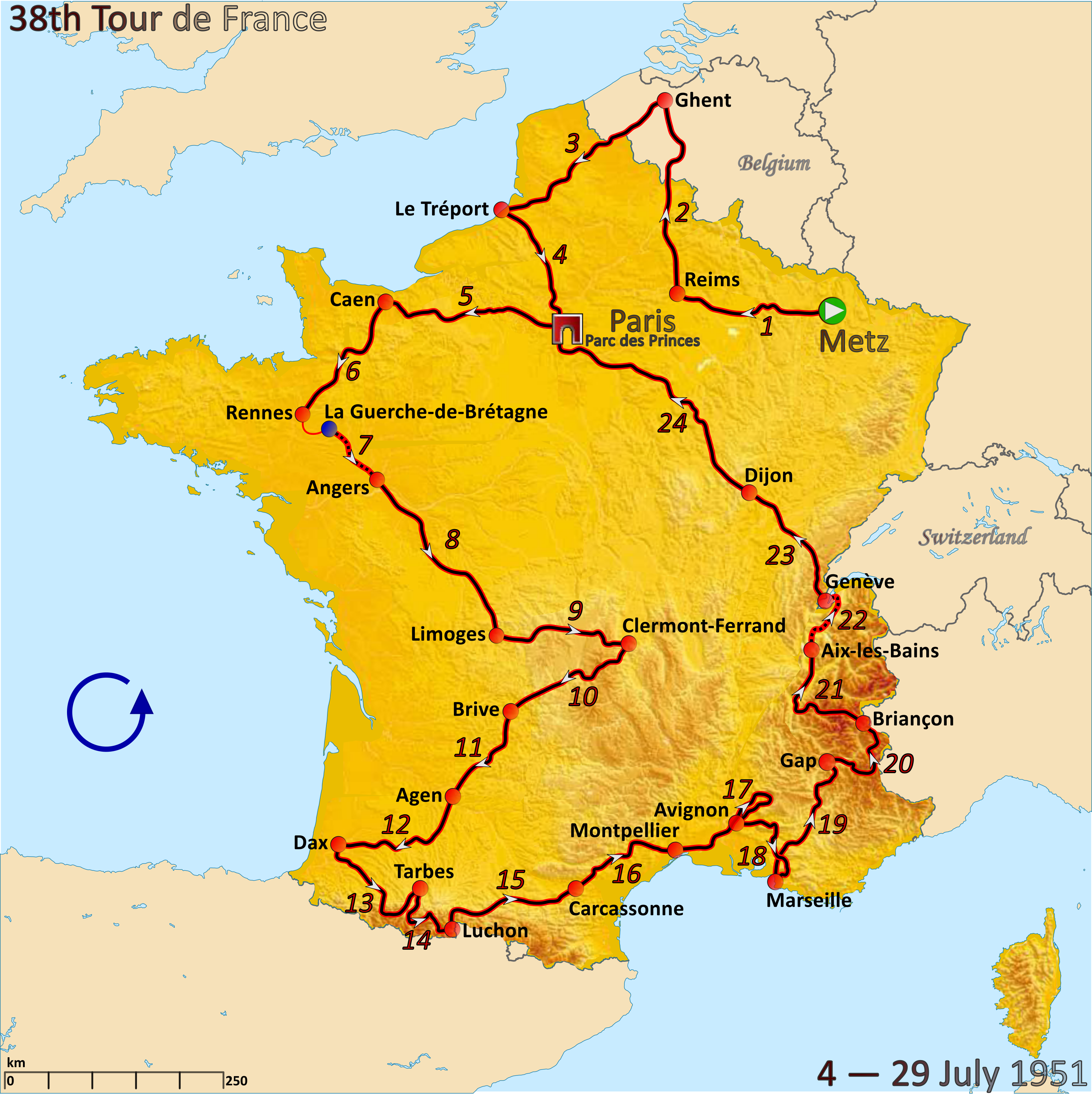 Route of the 1951 Tour de France created in Inkscape using accurate stage maps from touratlas.nl